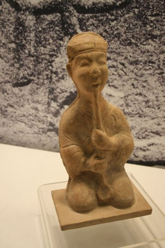 A Chinese Eastern Han Dynasty (25-220 AD) ceramic figurine of a musician playing a xiao flute, from the Pengshan Tomb of Sichuan.